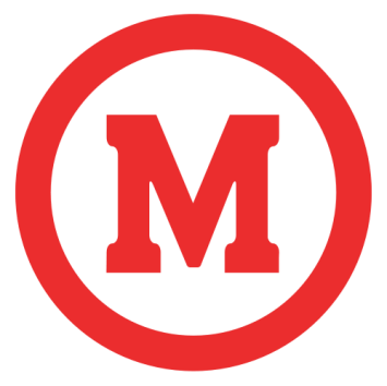 "M" Logo of Universidade Presbiteriana Mackenzie (Mackenzie Presbyterian University) used to identify these articles in Wikipedia (English/Português).